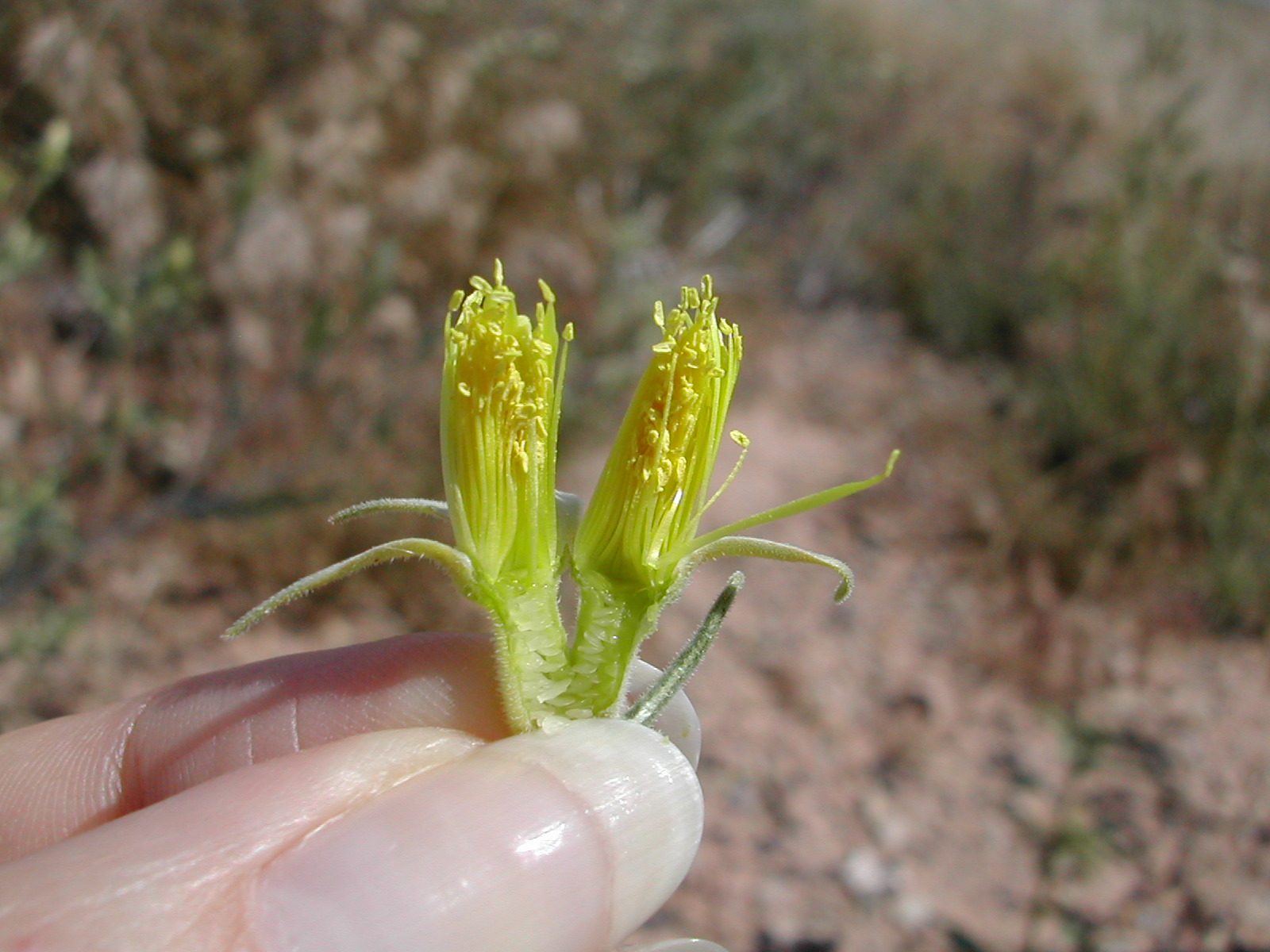 Epigynous flower of Mentzelia multiflora — Adonis blazingstar, desert blazingstar. Native to southwestern North America.